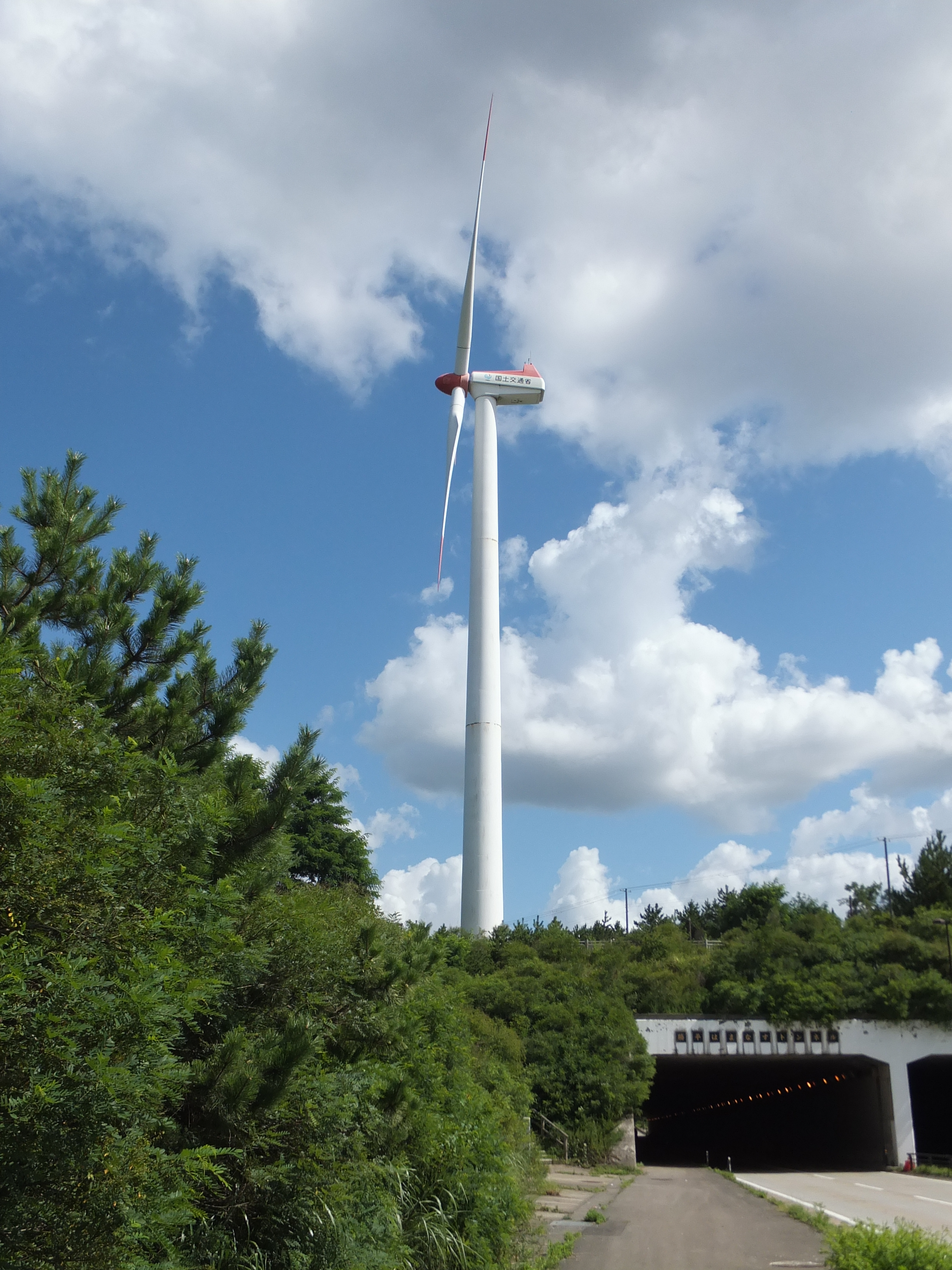 Wind generator on the Route 7 of Japan, in Akita, Akita. It is nicknamed 'Taiyo' (means the Sun).